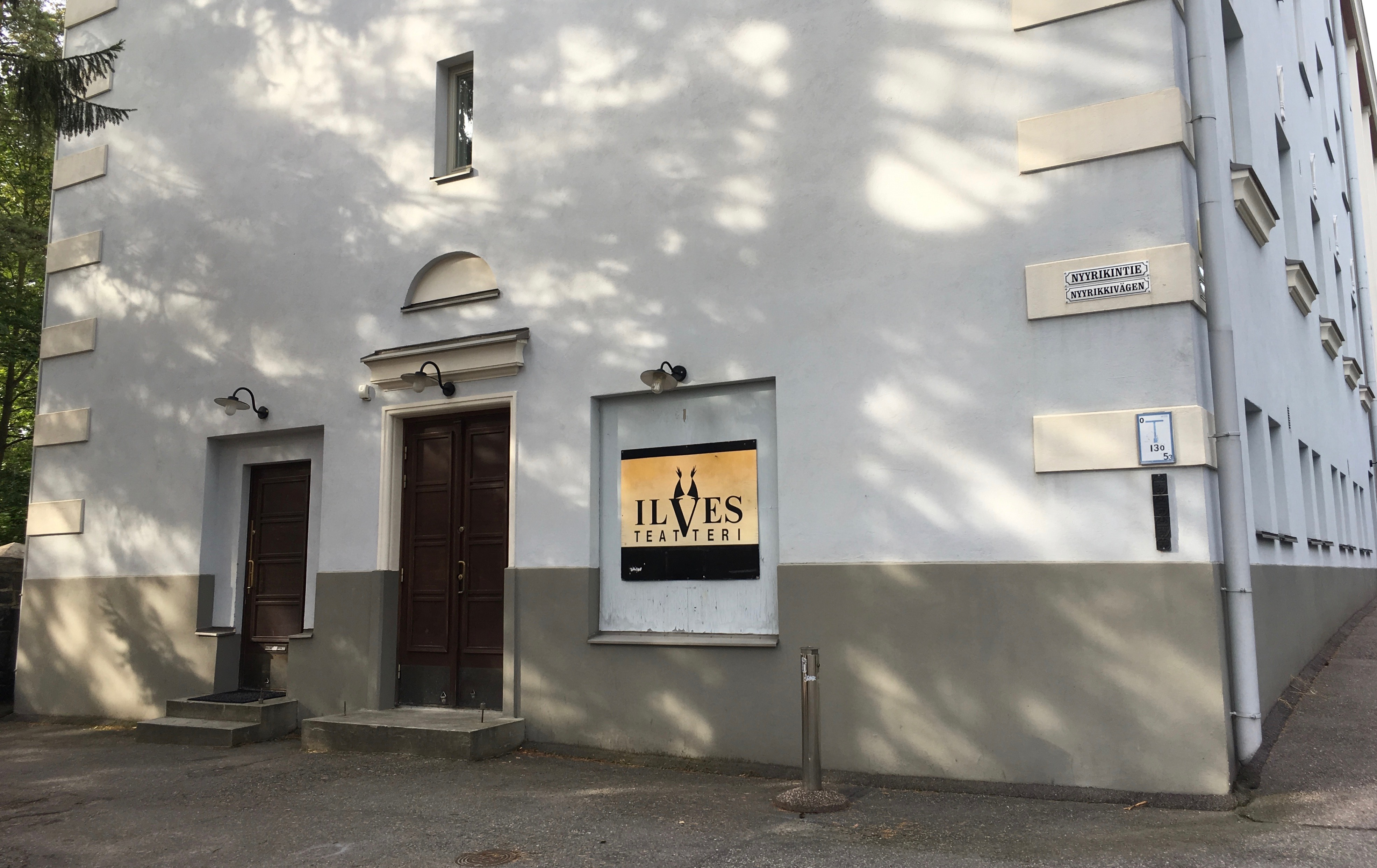 House of Ilves-Teatteri theater in Käpylä, Helsinki.